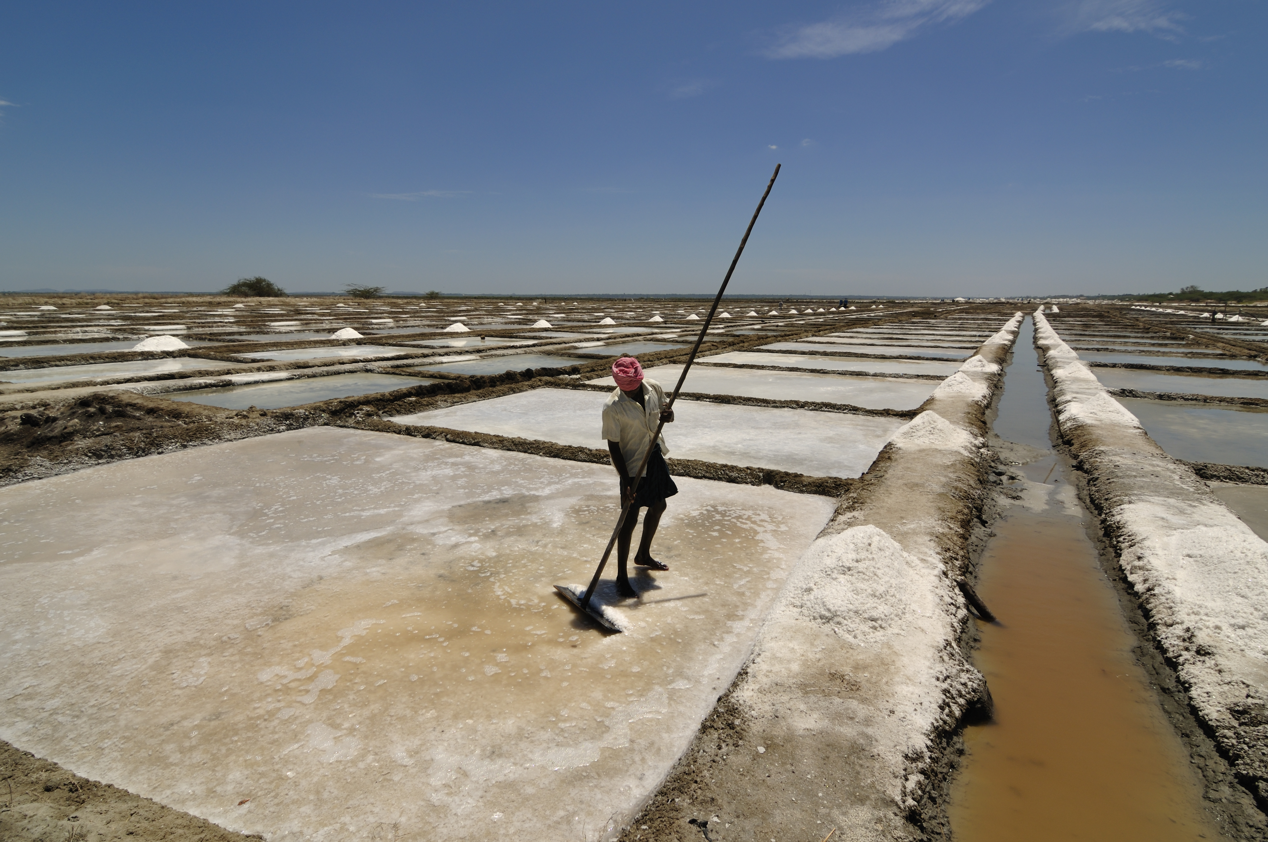 The life of a salt pan worker is harsh especially at a daily wage of few hundred rupees. Marakkanam in Tamil Nadu, India has many salt pans where they produce sea salt by drying up sea water that is pumped into pans. The industry is facing a number of problems recently and many workers now prefer to do daily labor in construction industry instead of working in highly saline conditions for a considerable number of hours every day. The image attempts to portray this reality, while still trying to be photographically artistic. Note: This photograph uses Adobe RGB color space. It is recommended that the photograph be viewed in a browser/image viewer that supports non-sRGB color space. Safari and Firefox include non-sRGB color space support by default.